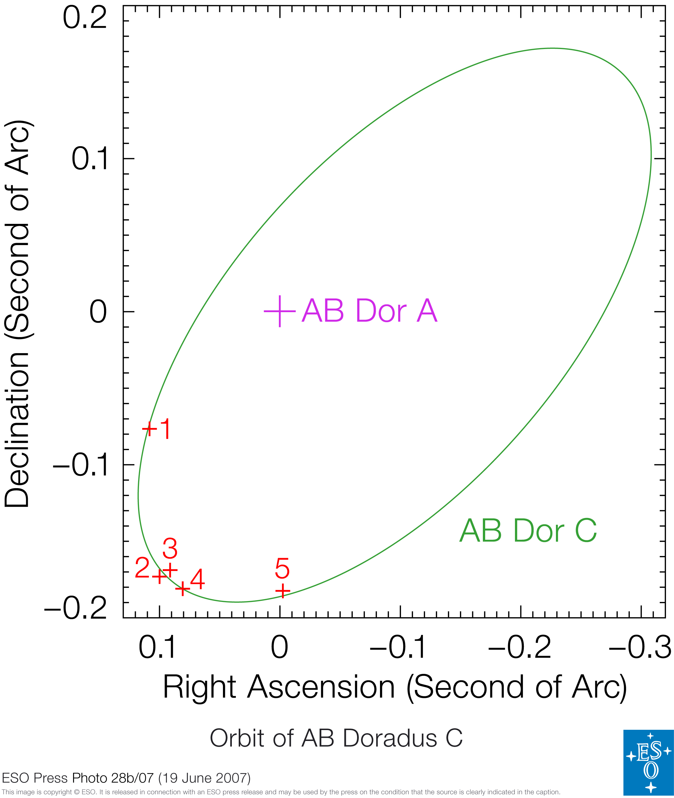 The orbit of AB Doradus C around its more massive companion, AB Doradus A, is shown as a green ellipse.